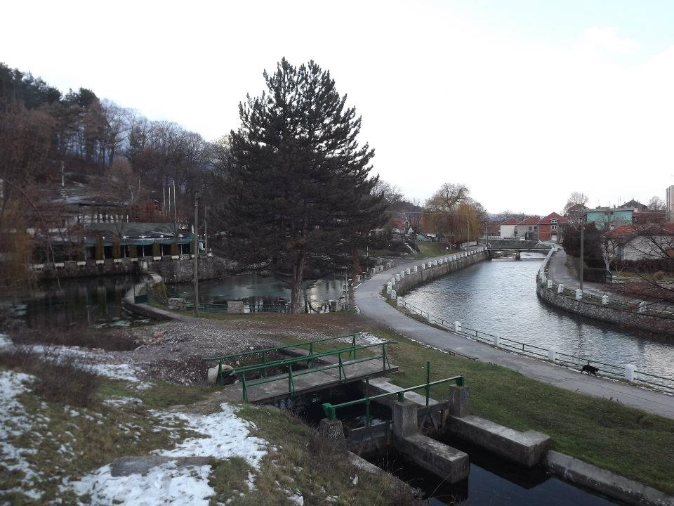 Wellspring in Bela Palanka, Serbia Srpski (latinica): Belopalanačko vrelo, Bela Palanka, Srbija